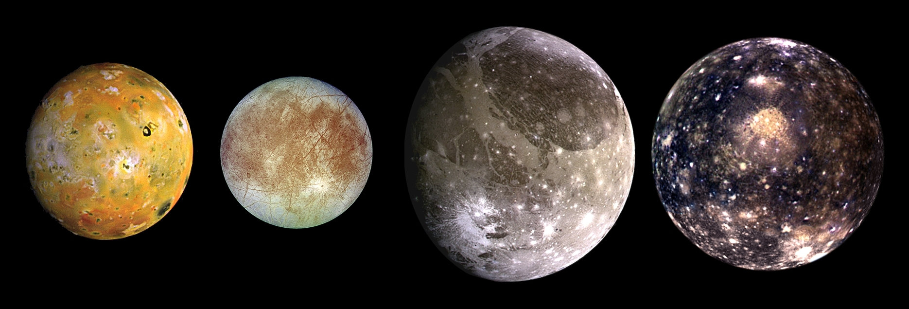 This composite includes the four largest moons of Jupiter which are known as the Galilean satellites. The Galilean satellites were first seen by the Italian astronomer Galileo Galilei in 1610. Shown from left to right in order of increasing distance from Jupiter, Io is closest, followed by Europa, Ganymede, and Callisto. The order of these satellites from the planet Jupiter helps to explain some of the visible differences among the moons. Io is subject to the strongest tidal stresses from the massive planet. These stresses generate internal heating which is released at the surface and makes Io the most volcanically active body in our solar system. Europa appears to be strongly differentiated with a rock/iron core, an ice layer at its surface, and the potential for local or global zones of water between these layers. Tectonic resurfacing brightens terrain on the less active and partially differentiated moon Ganymede. Callisto, furthest from Jupiter, appears heavily cratered at low resolutions and shows no evidence of internal activity. North is to the top of this composite picture in which these satellites have all been scaled to a common factor of 10 kilometers (6 miles) per picture element. The Solid State Imaging (CCD) system aboard NASA's Galileo spacecraft acquired the Io and Ganymede images in June 1996, the Europa images in September 1996, and the Callisto images in November 1997. Launched in October 1989, the spacecraft's mission is to conduct detailed studies of the giant planet, its largest moons and the Jovian magnetic environment. The Jet Propulsion Laboratory, Pasadena, CA, manages the mission for NASA's Office of Space Science, Washington, DC.